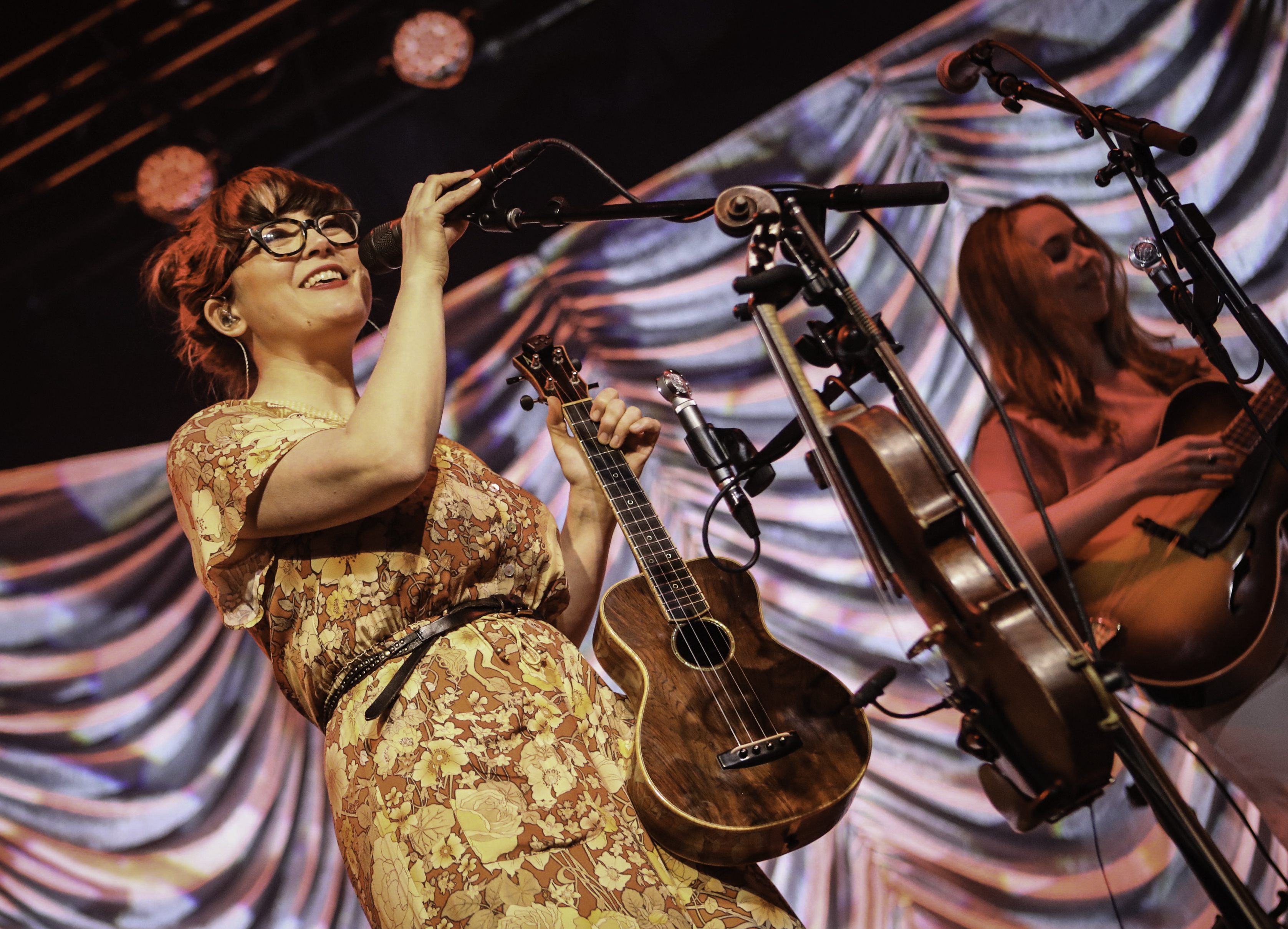 I'm With Her - First Avenue Minneapolis